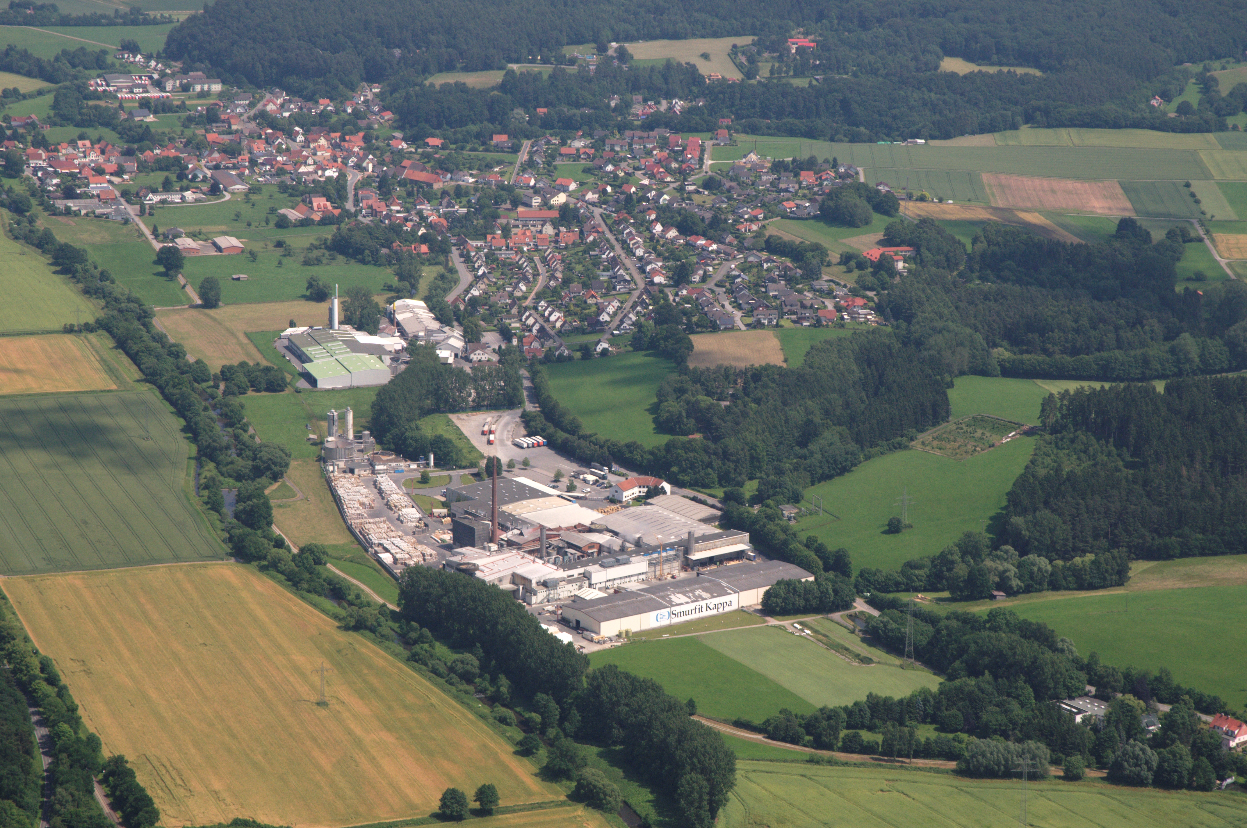 Fotoflug Sauerland-Ost: Diemelstadt-Wrexen, Papierfabrik Smurfit Kappa. The making of this document was supported by the Community-Budget of Wikimedia Germany.